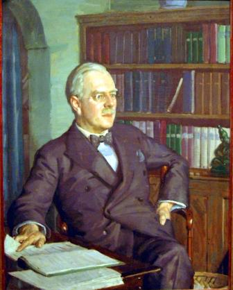 A portrait of Roland Pope, an Australian cricketer and ophthalmologist.